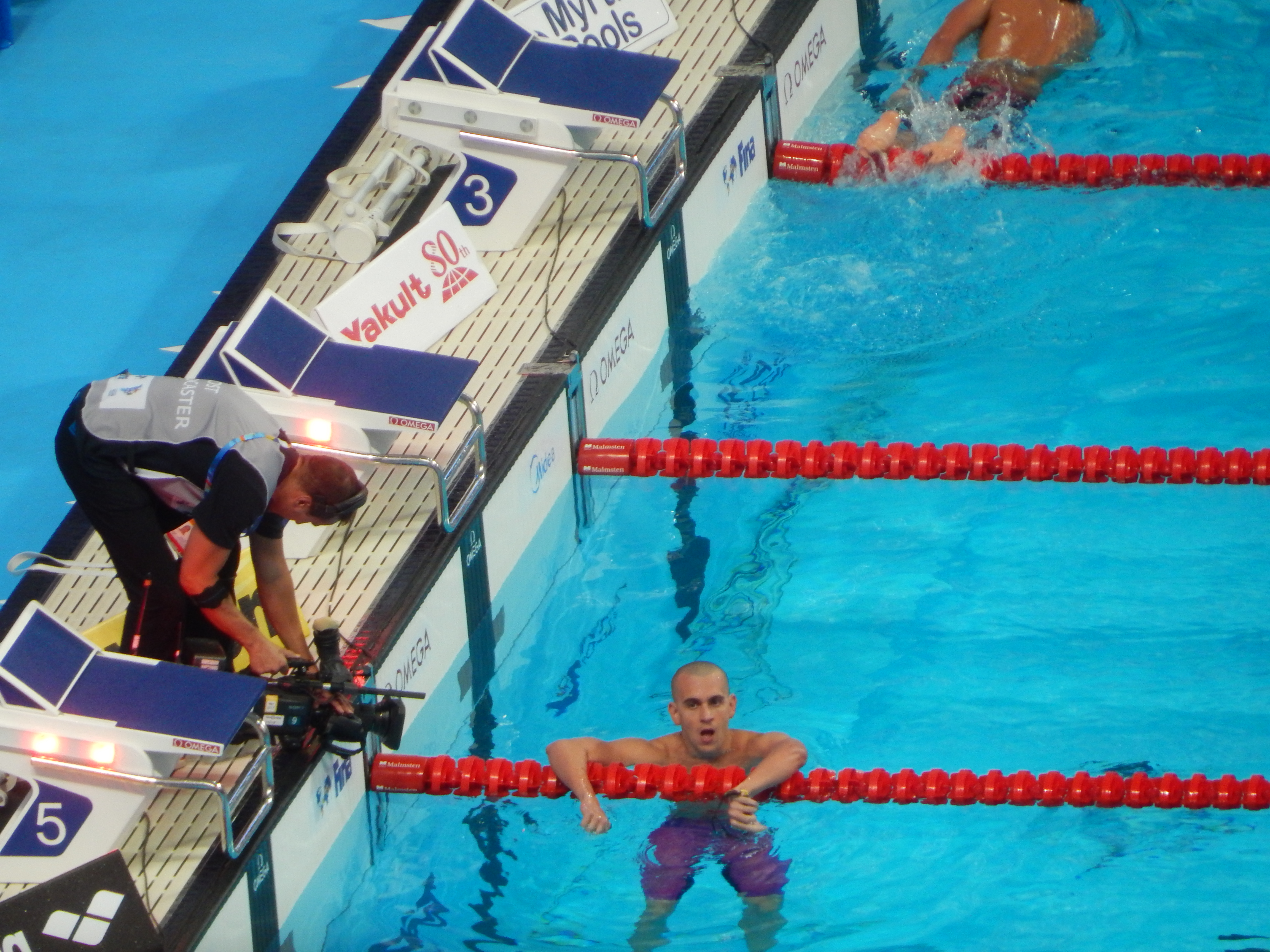 Laszlo Cseh won the 200-meter butterfly in Kazan